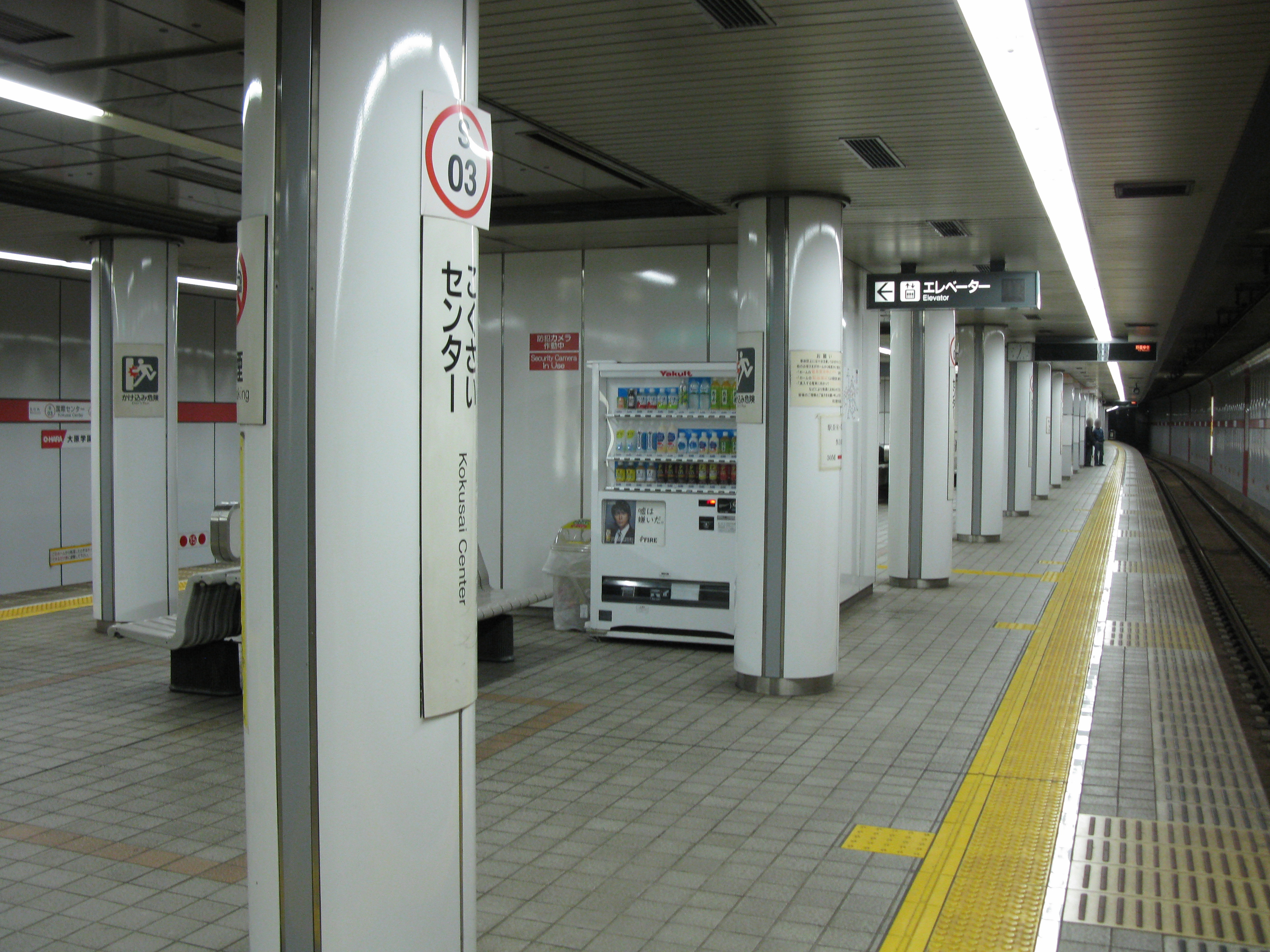 The platform at Kokusai Center(International center) Station on the Nagoya Municipal Subway Sakura-dōri Line